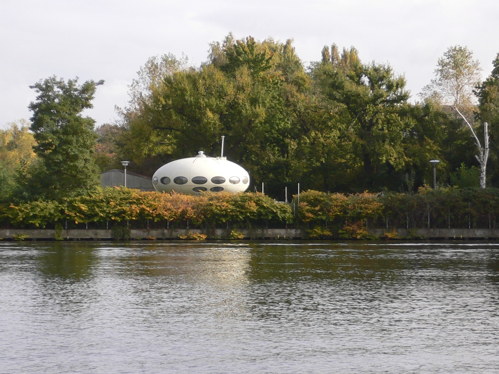 ufo (Futuro, Matti Suuronen) east side of river Spree, area of Funkhaus Nalepastraße; seen from west side of Spree; cropped